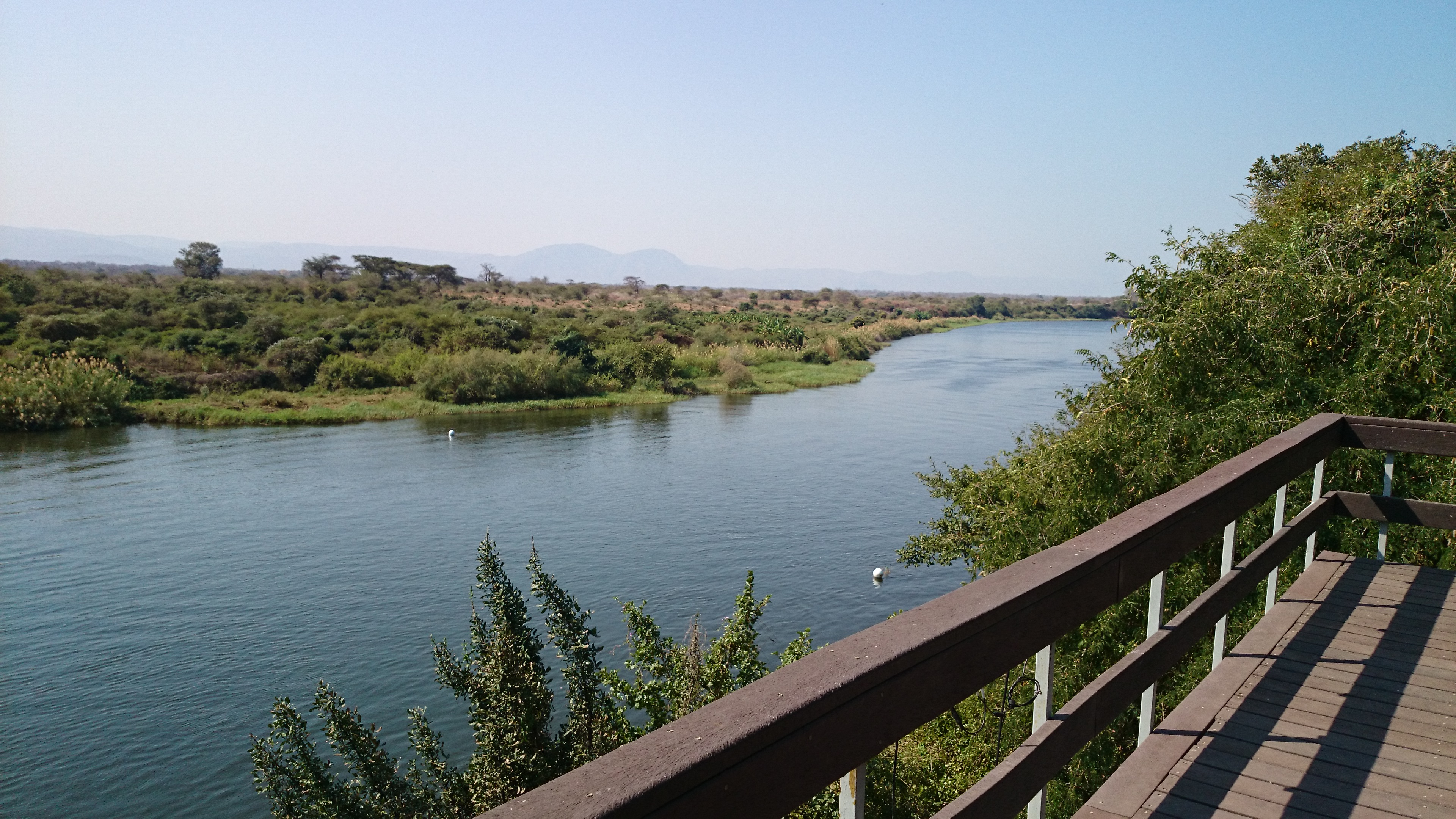 This is an image of Cultural Fashion or Adornment from Zambia